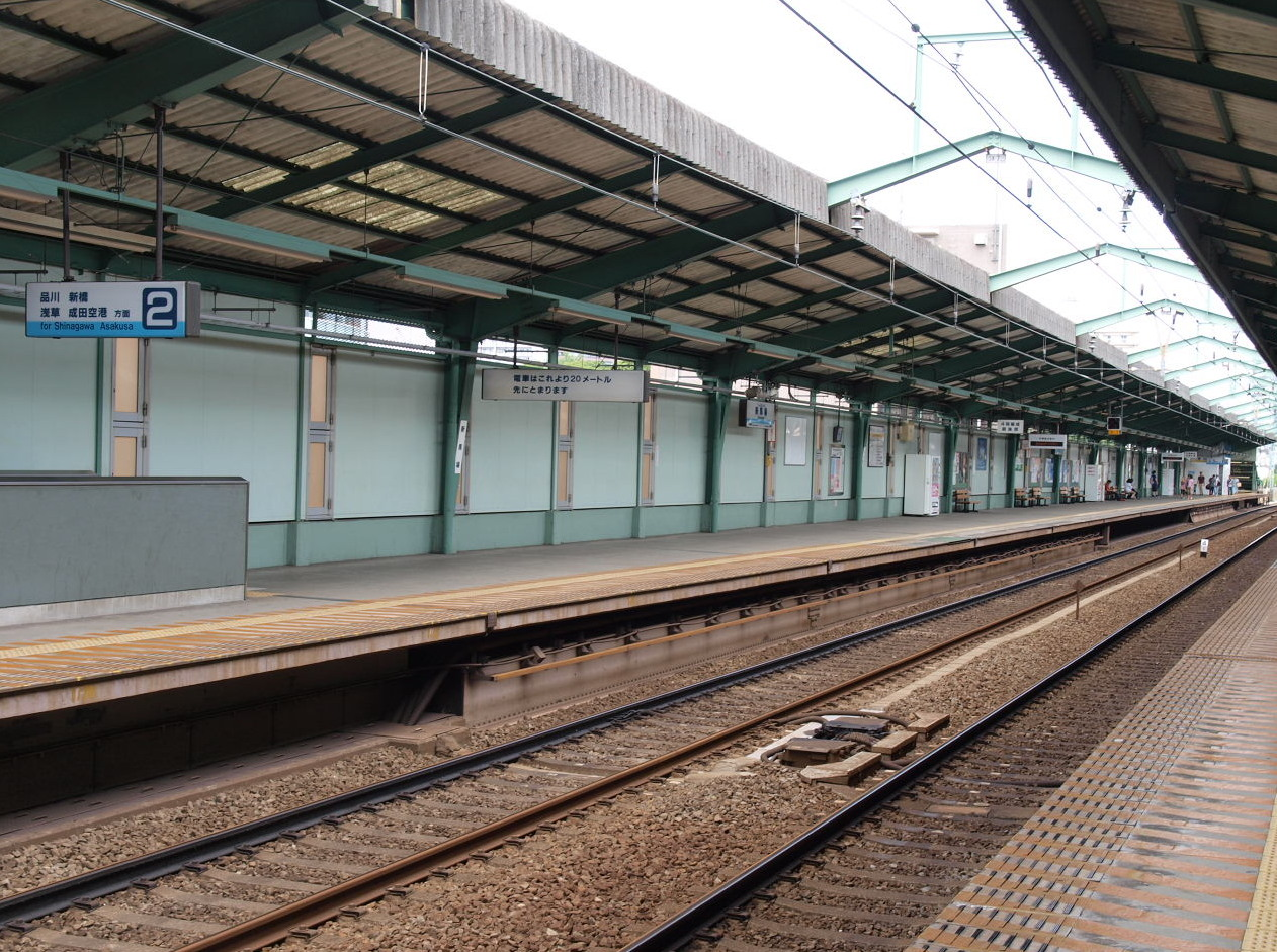 Shin Bamba station platforms